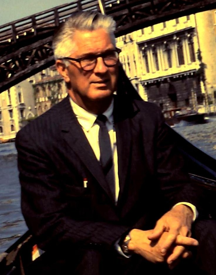 William M. Haussmann, Sr, on vacation, in Venice, Italy.